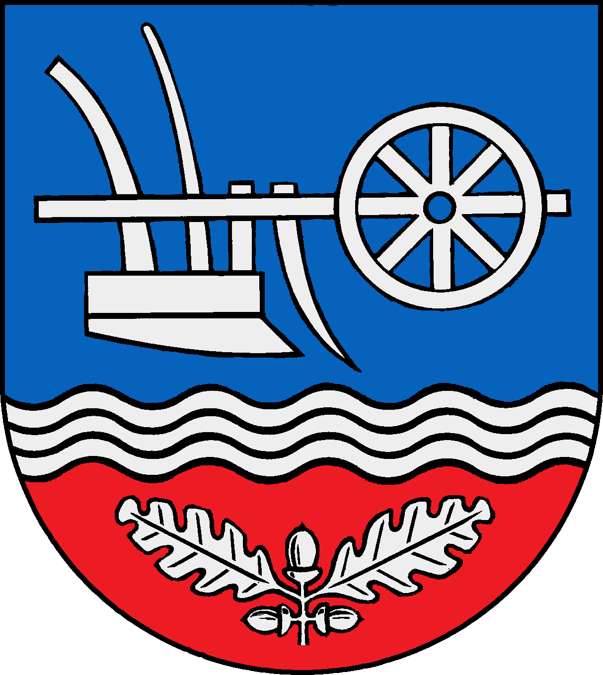 Coat of arms of the municipality Bösdorf in Schleswig-Holstein, Germany.